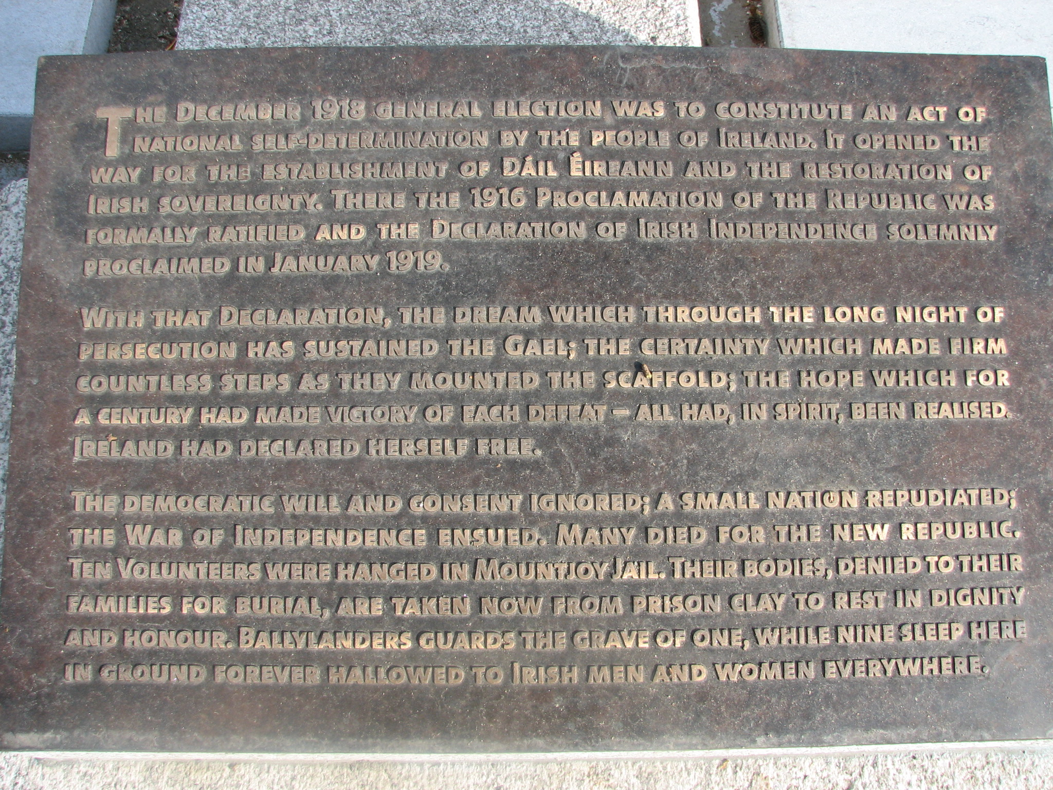 On October 14, 2001 the remains of Kevin Barry and 9 other volunteers from the War of Independence were given a state funeral and moved from Mountjoy Prison to be re-interred at Glasnevin Cemetery in Dublin. This Plaque appears in both English and Irish.